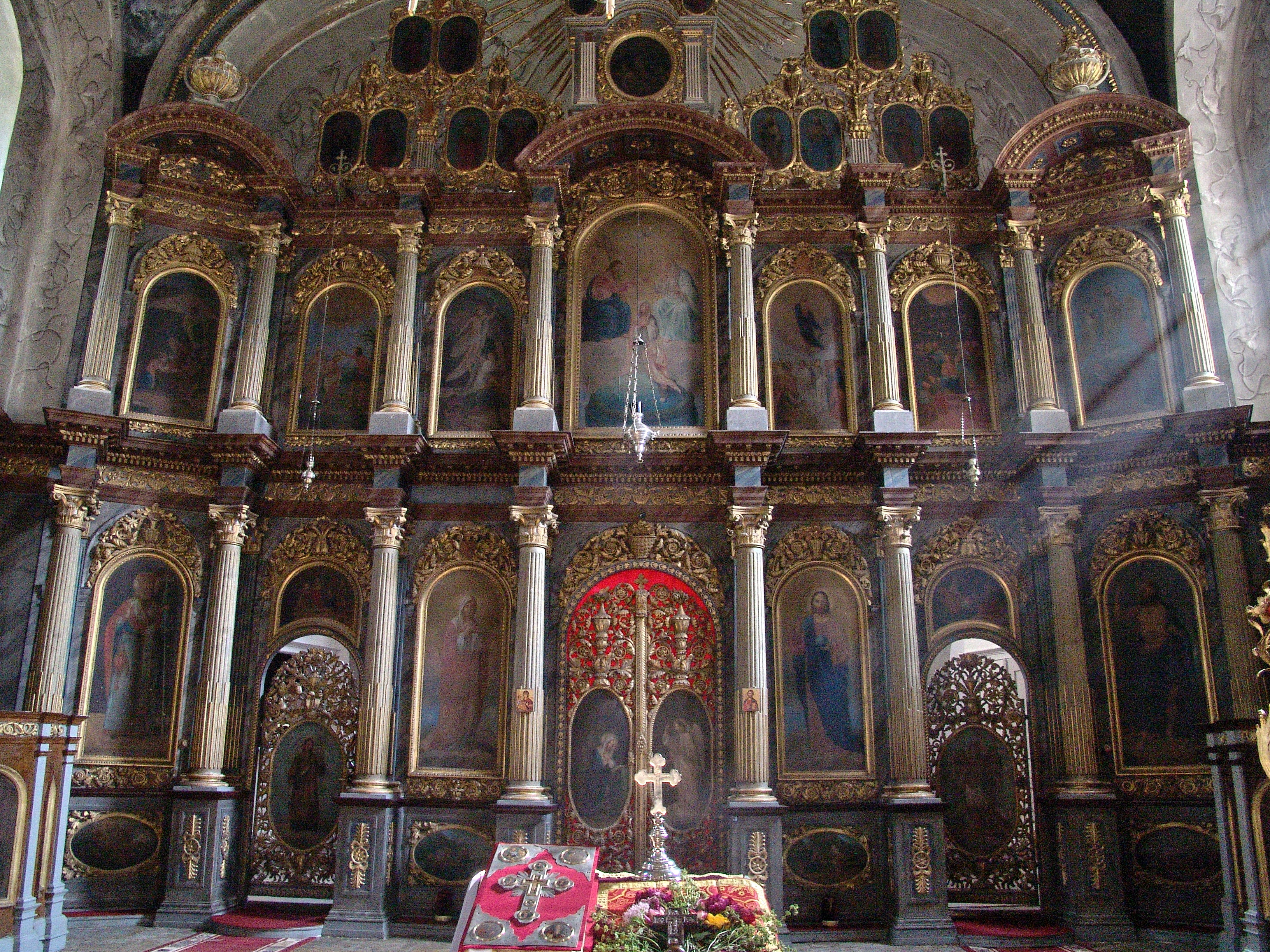 Serbian Orthodox church of Saint Nicholas in Radojevo - iconostasis